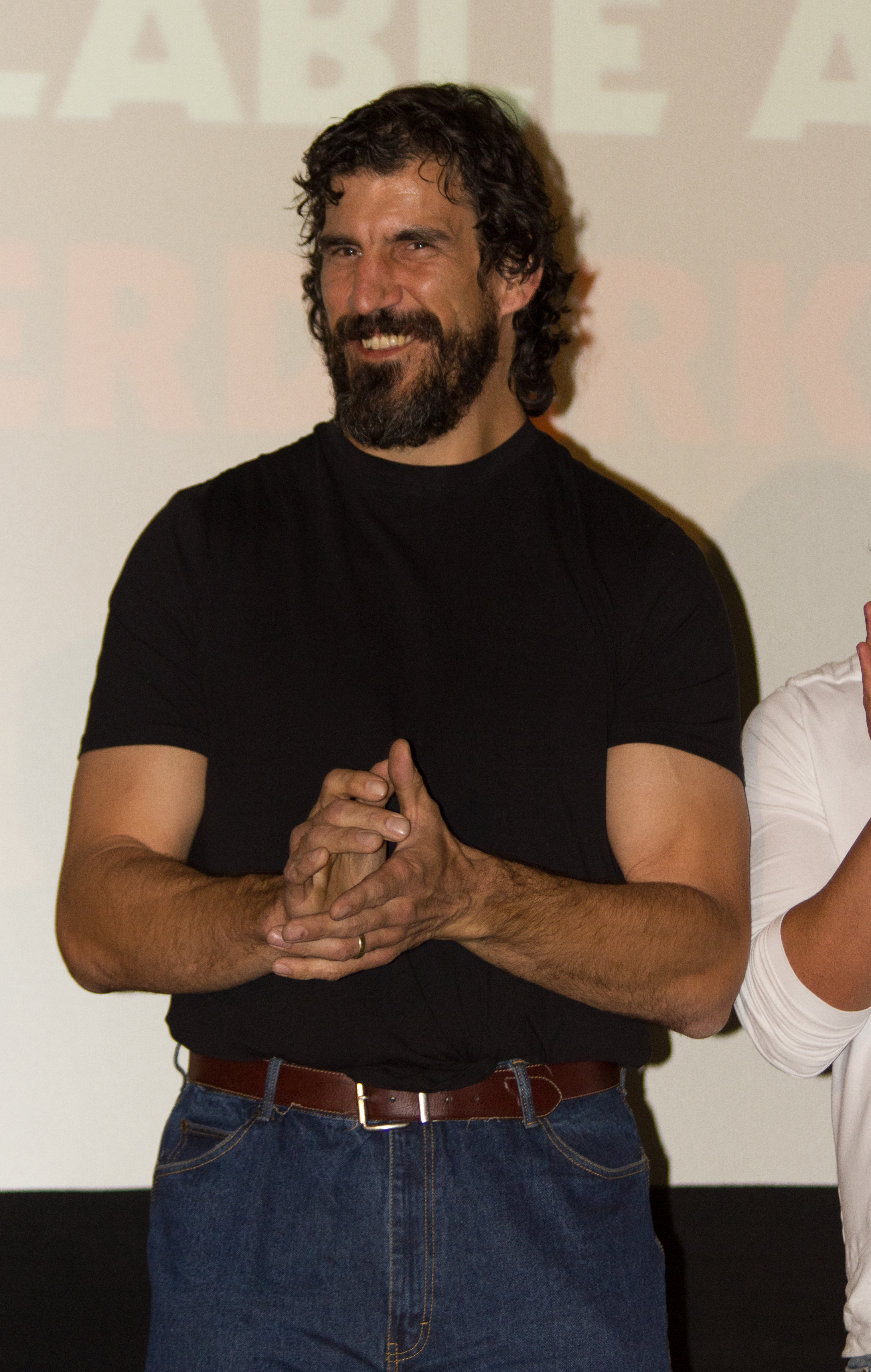 Robert Maillet at the gala premiere of "Monster Brawl" at the 2011 Toronto After Dark Film Festival